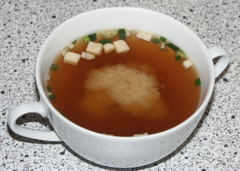 GT_Aka-Miso-Soup